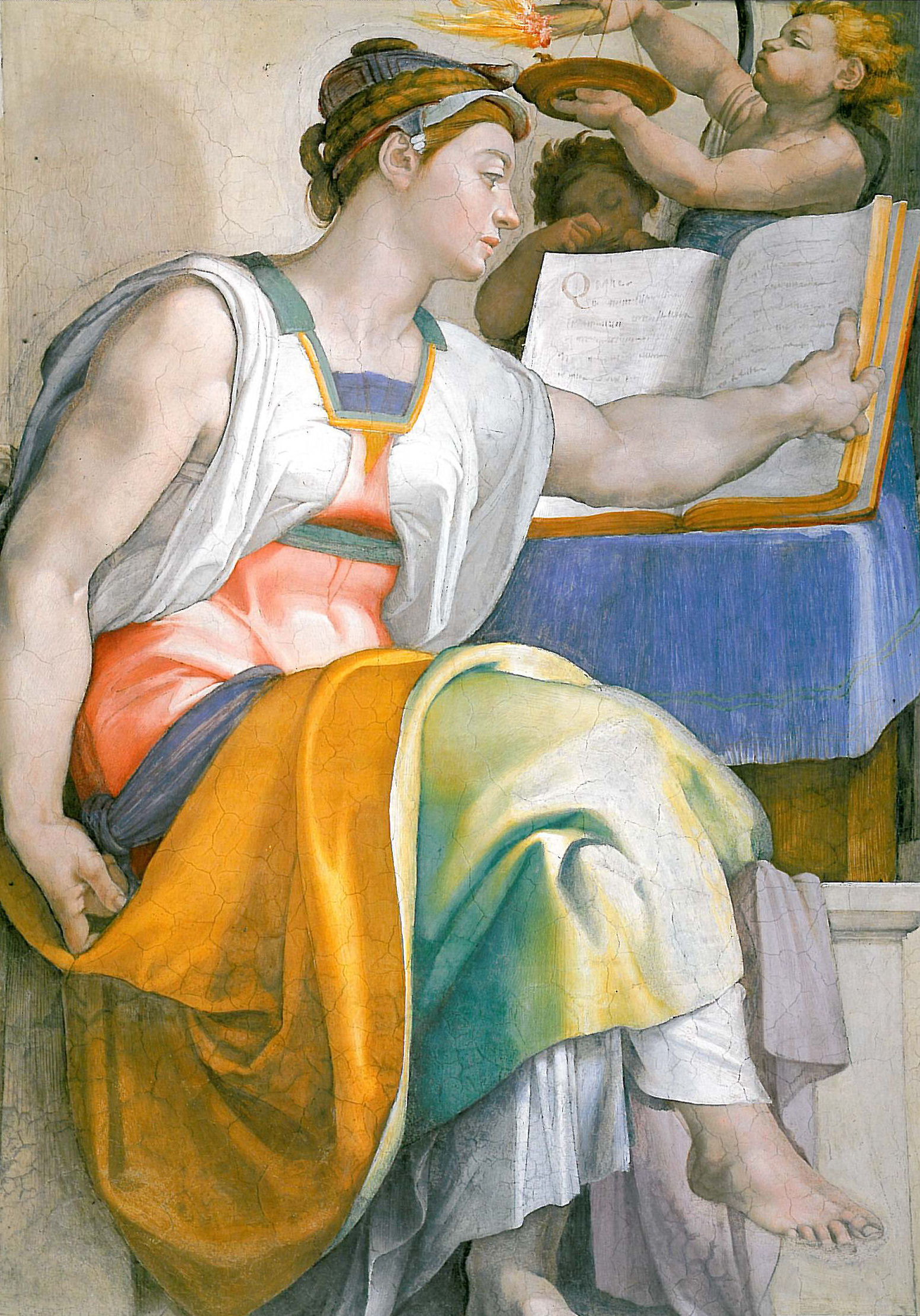 fresco painted by Michelangelo and his assistants for the Sistine Chapel in the Vatican between 1508 to 1512